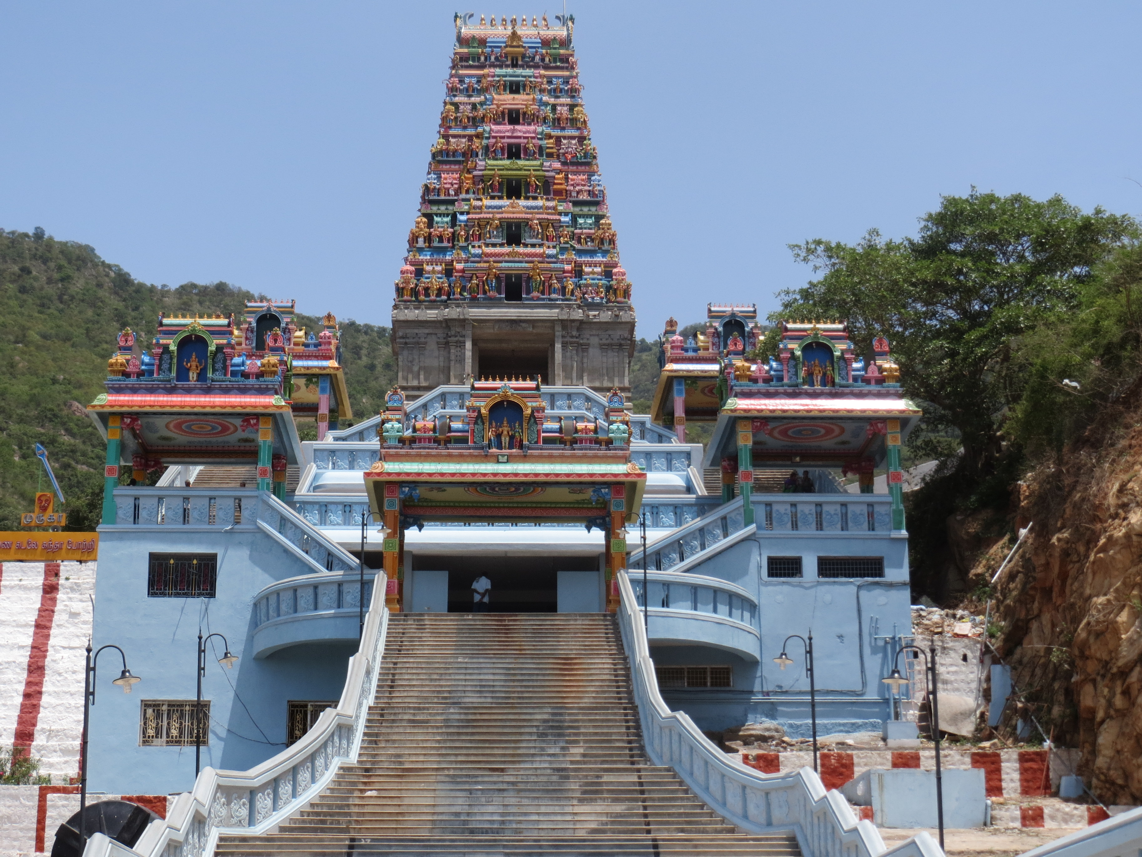 Newly constructed rajagopuram and stairs of Maruthamalai. Tamil:புதிதாகக் கட்டப்பட்டுள்ள மருதமலை ராஜகோபுரமும் படிக்கட்டுகளும்.